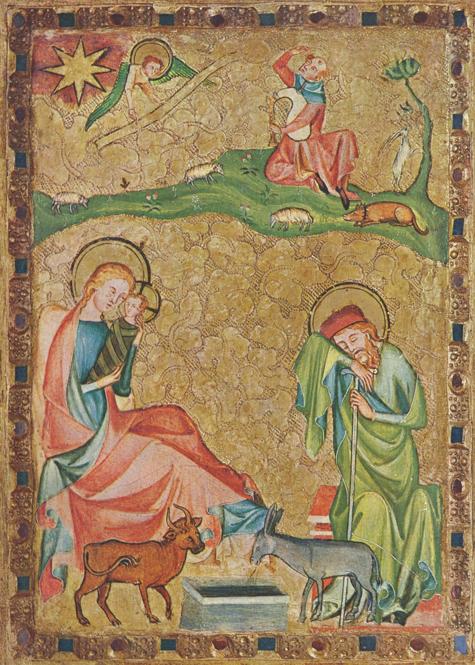 Top part of the inner left wing of the Flügelaltärches mit Kreuzigung